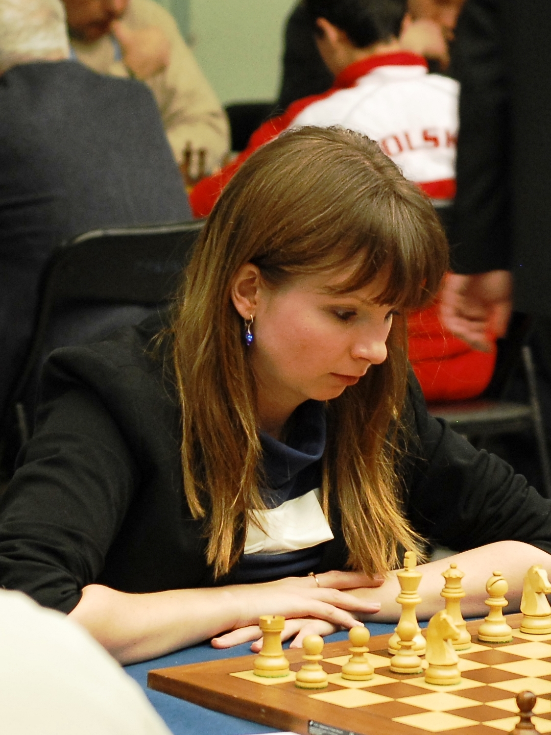 WGM Beata Kądziołka, European Rapid Chess Championship, Warsaw 2012.